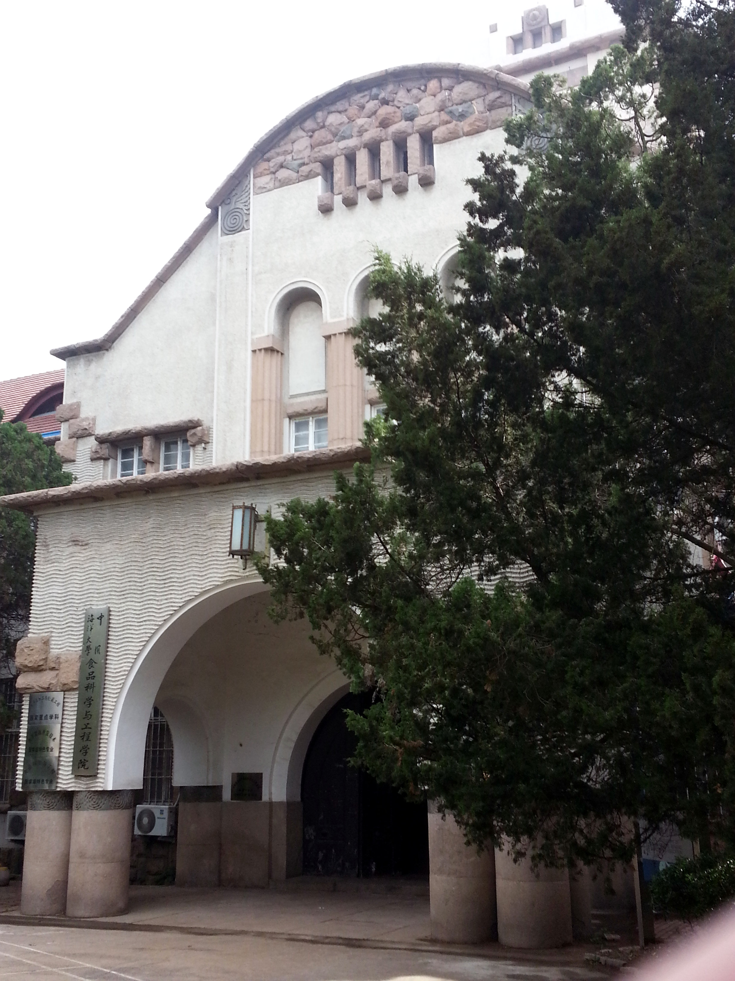 Photograph of the exterior of the historical front building on the Yushan Campus of the Ocean University of China in Qingdao, Shandong. The building was originally part of the German Bismarck barracks and was used by the National Shandong University in Qingdao from 1909 to 1936.